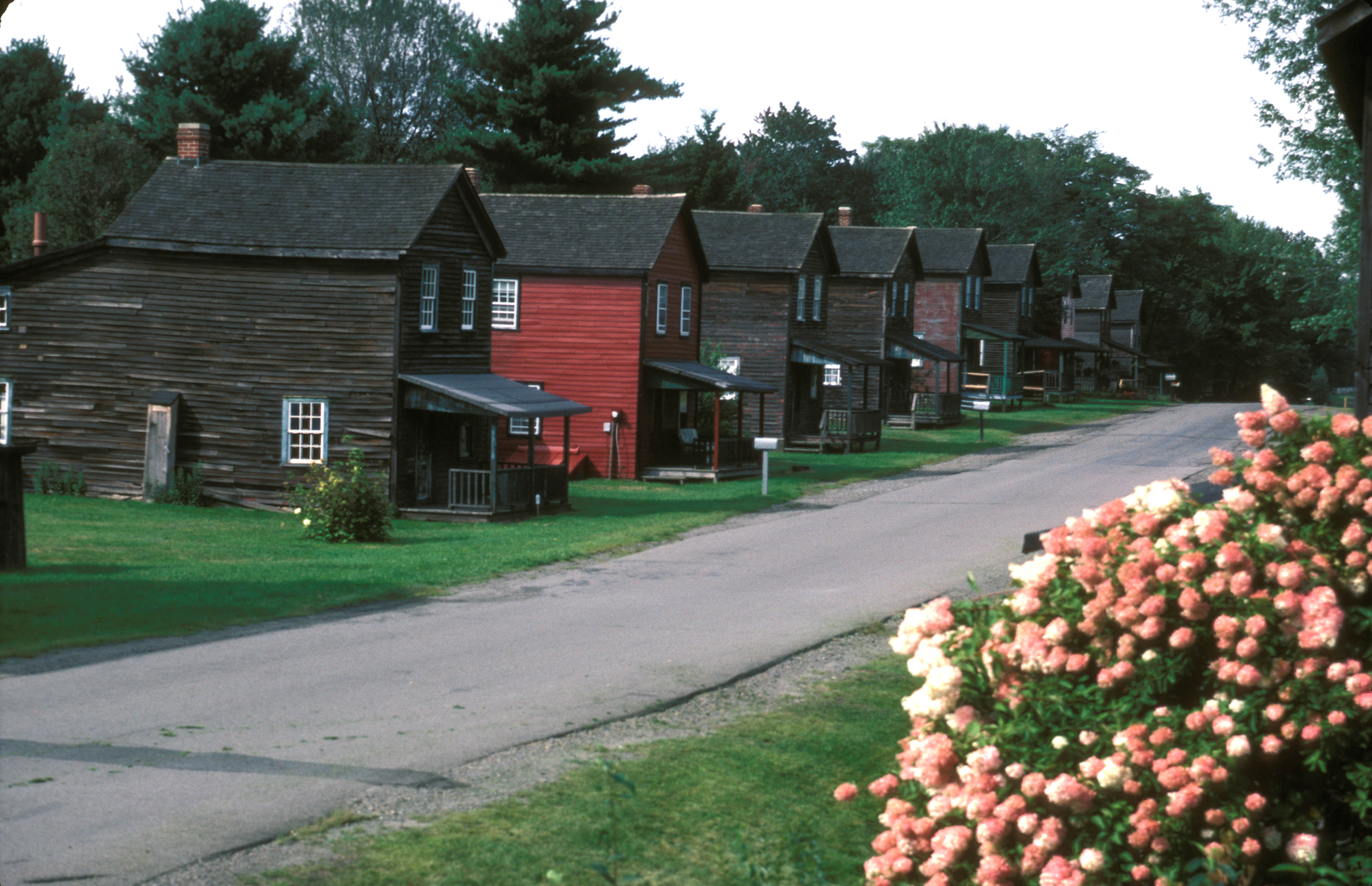 A COMPANY-OWNED MINING COMMUNITY FROM 1854 TO 1870 SINGLE FAMILY DWELLINGS OCCUPIED BY MINE BOSSES ARE SHOWN IN THIS PICTURE. TH,E HIGHER YOUR STATUS THE BETTER HOUSING YOU RECEIVED. ALL OF IT WAS MAINLY ON THE ONE STREET ON TOWN